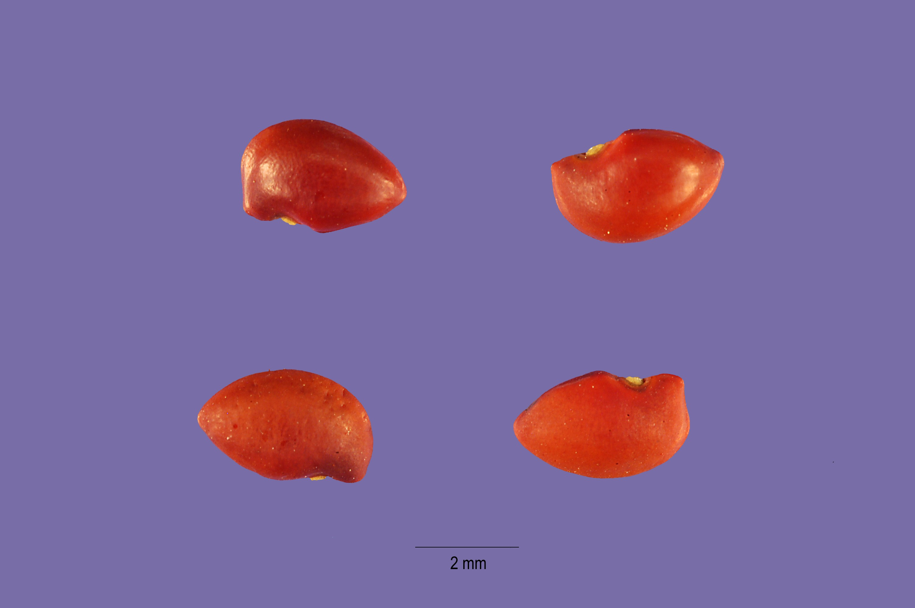 seeds of Amorpha californica Provided by ARS Systematic Botany and Mycology Laboratory. United Kingdom, England, Liverpool